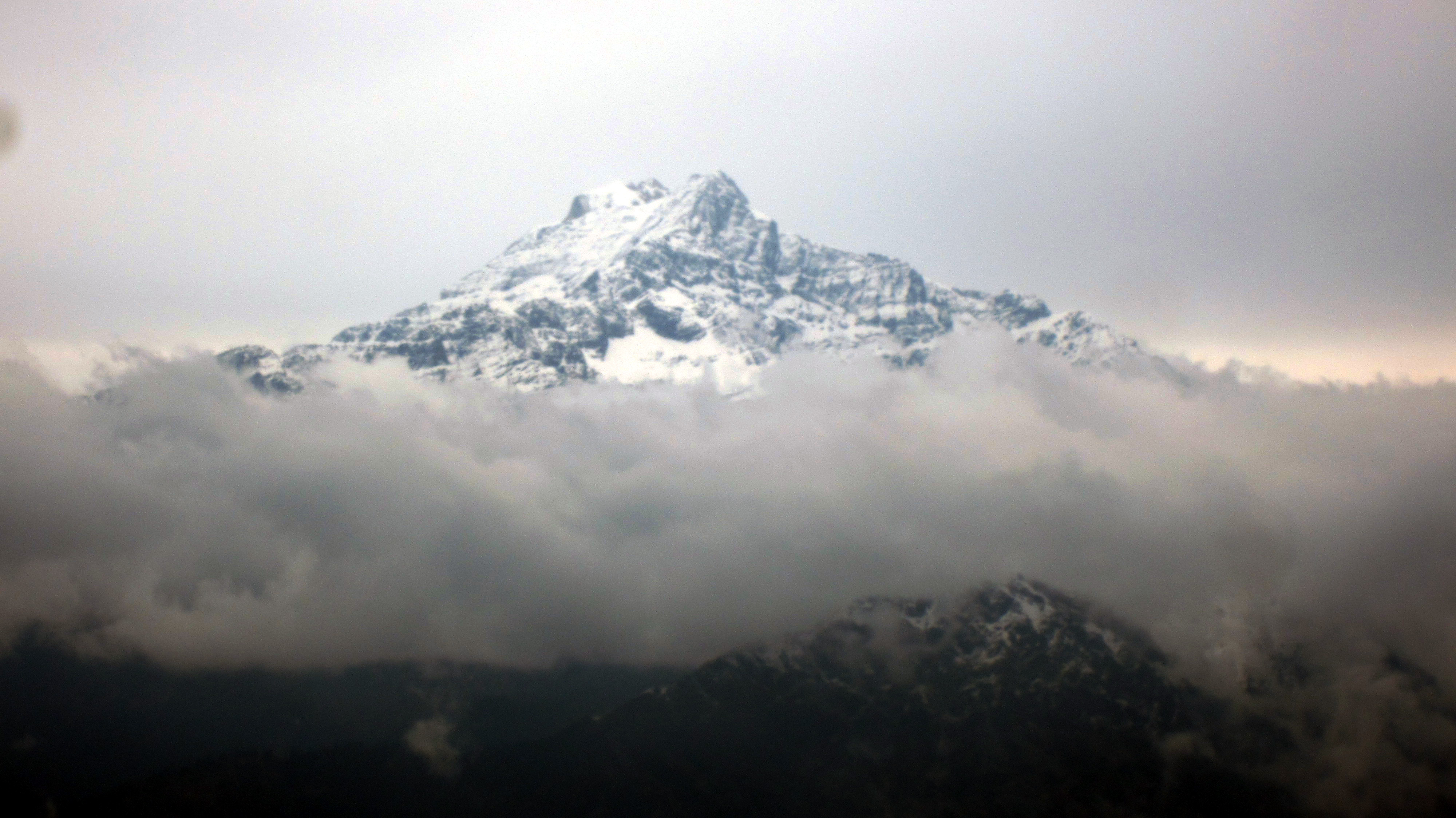 The Kanjiroba Himal is an isolated part of the Himalaya range within Nepal, adjacent to the Tibetan border.